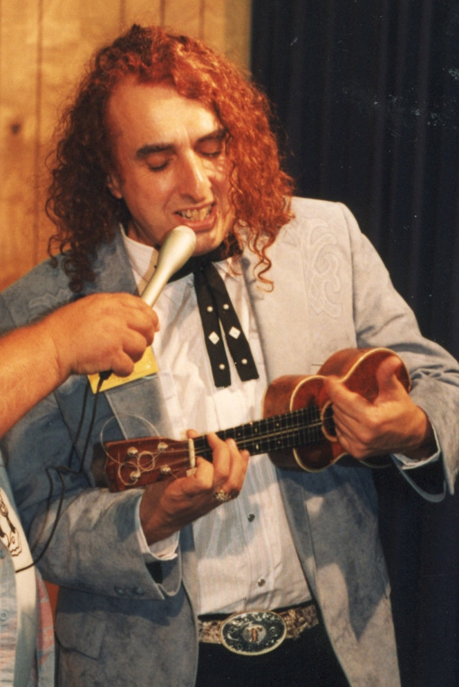 Tiny Tim performing for media interviews during Country Music Fan Fair at the Tennessee State Fair Grounds in Nashville Tennessee 1988 or 89 photo was taken by myself Christina Lynn Johnson, MagnetLoft while working for various Canadian Radio Stations during the event including CKDQ Q91 Drumheller, Alberta (On-Air name Tina Stephenson) Christina Lynn Johnson, MagnetLoft - Vistadeck ID 4507523 06:45, 29 June 2007 (UTC)